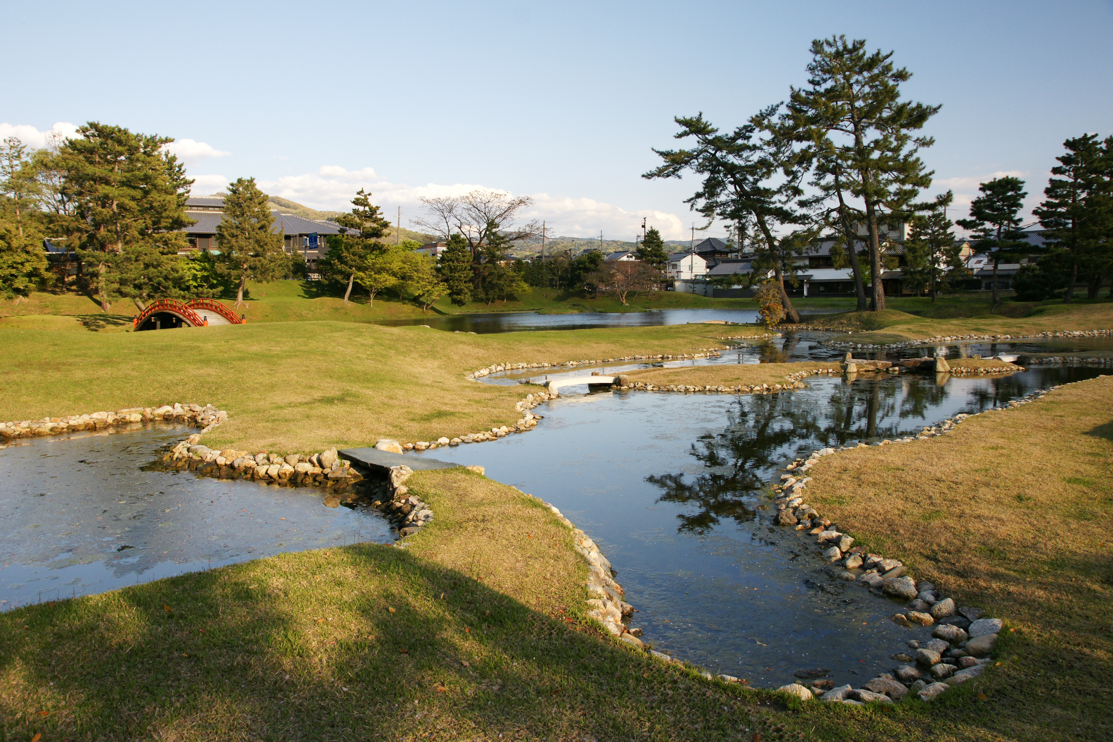 Kyu-Daijoin-teien in Nara, Nara prefecture, Japan.